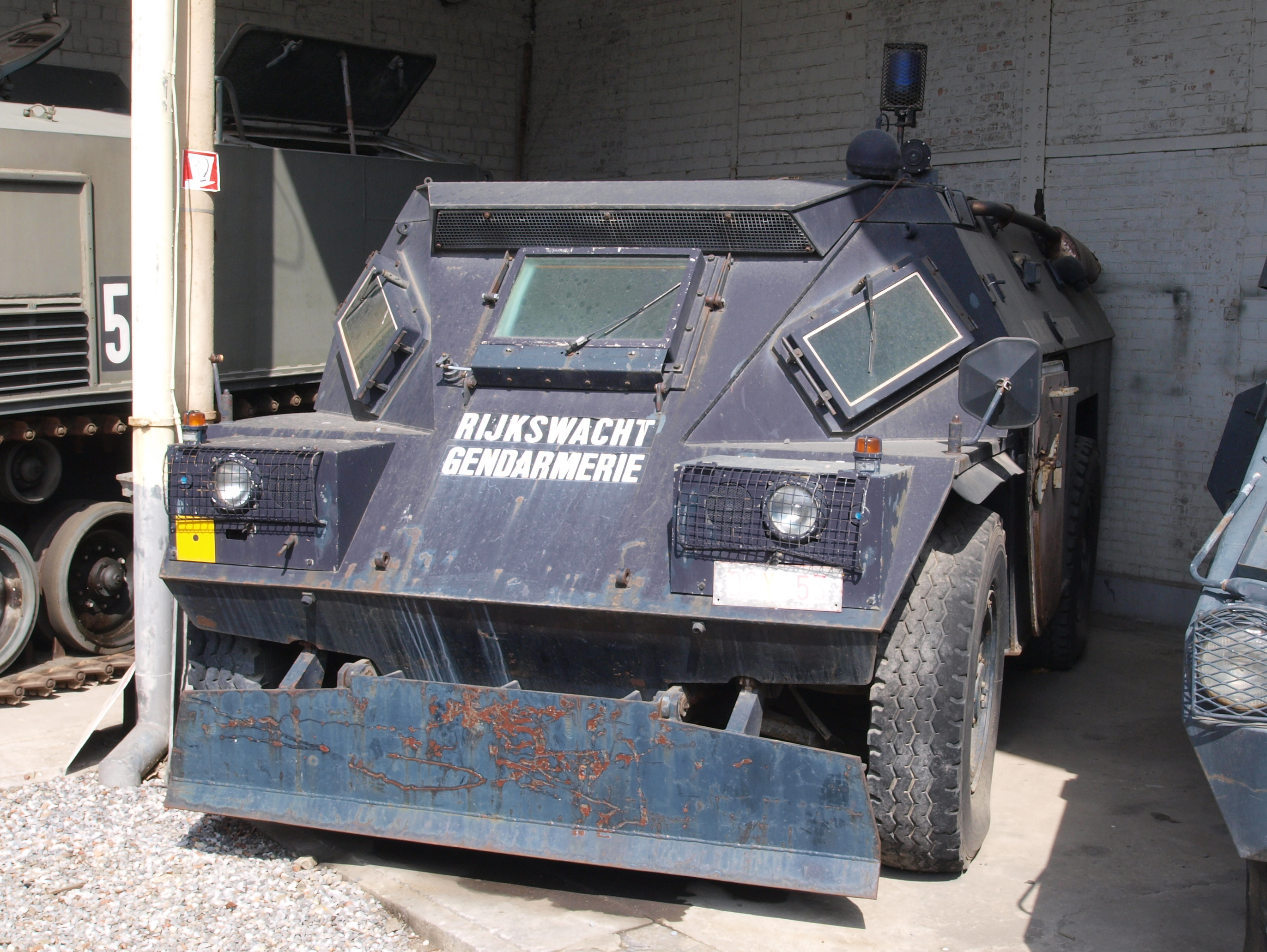 BDX (Beherman-Demoen Engineering), Belgian military police Rijkswacht / Gendarmerie. Photo taken at the Royal Military History Museum, Brussels, Belgium.